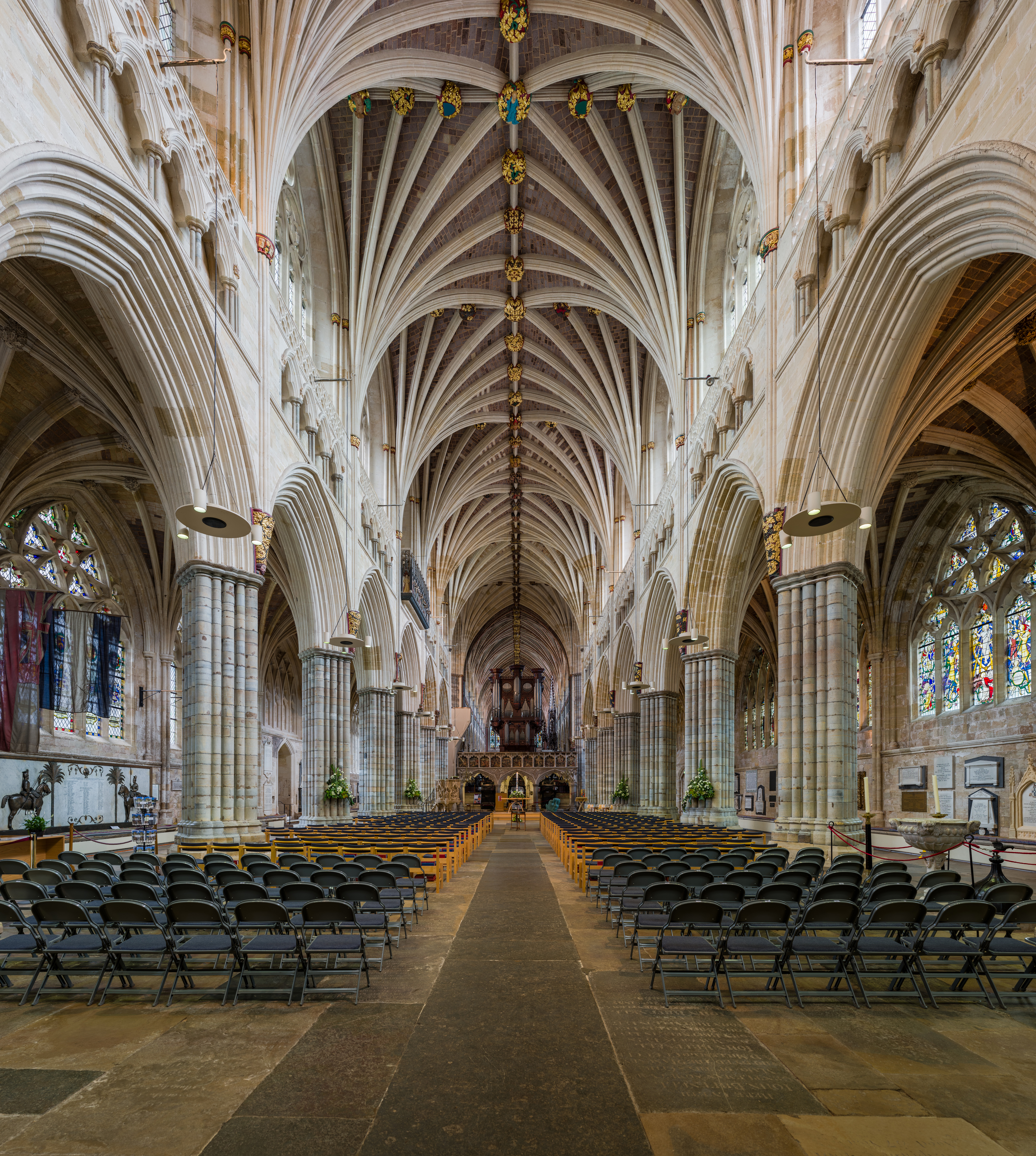 Exeter Cathedral interior view of the nave look eastward.